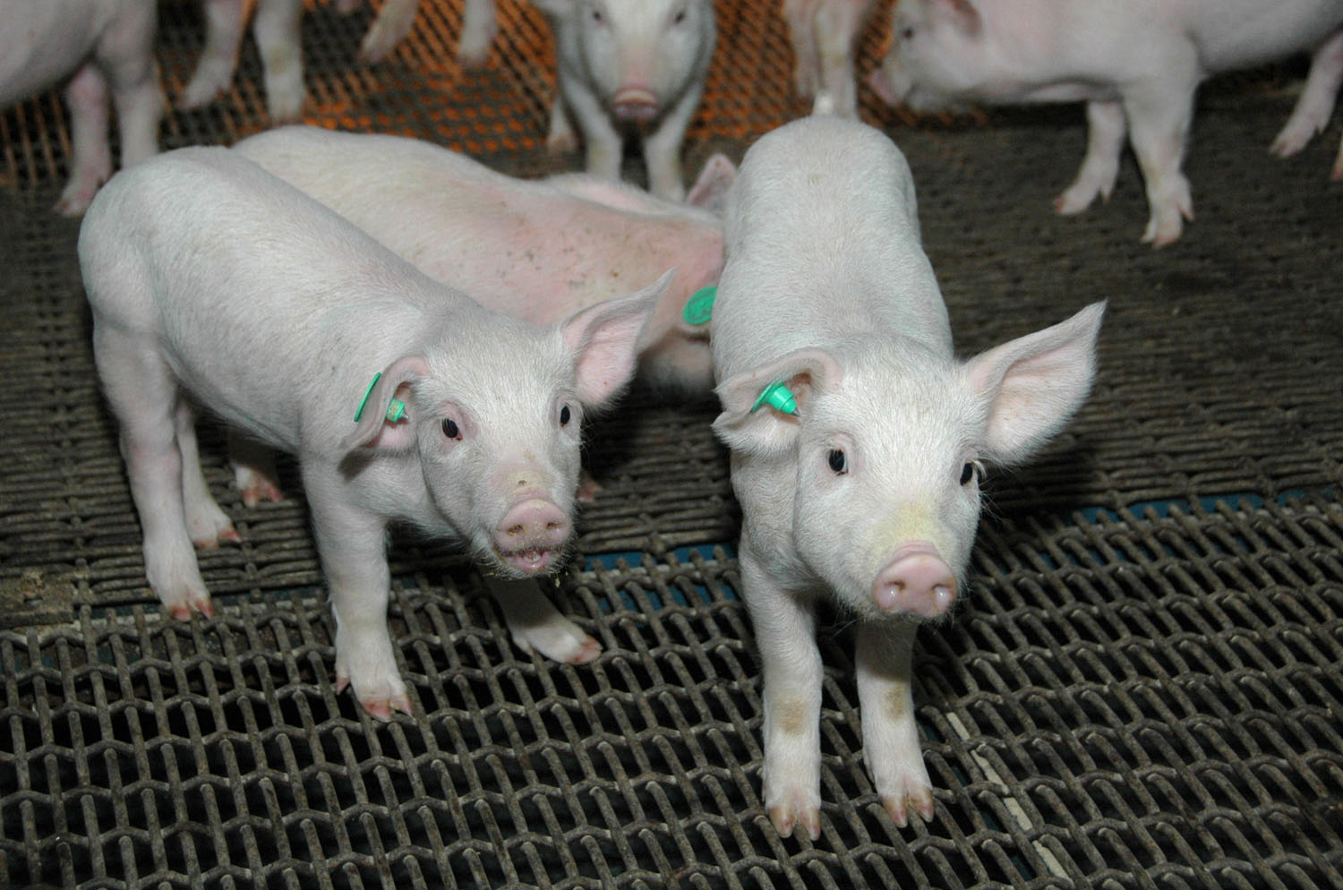 Piglets in a pigpen